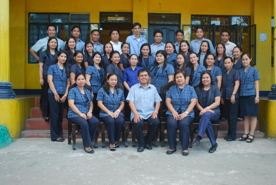 CCBHS Teachers